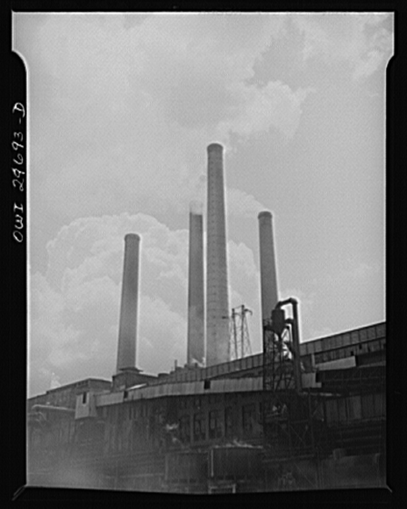 Smokestacks of a chemical factory near Institute, West Virginia, photographed in 1943.